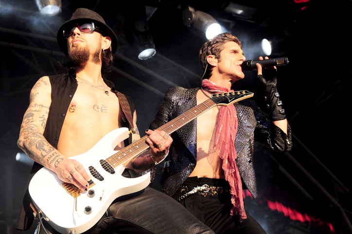 Soundwave Festival 2010